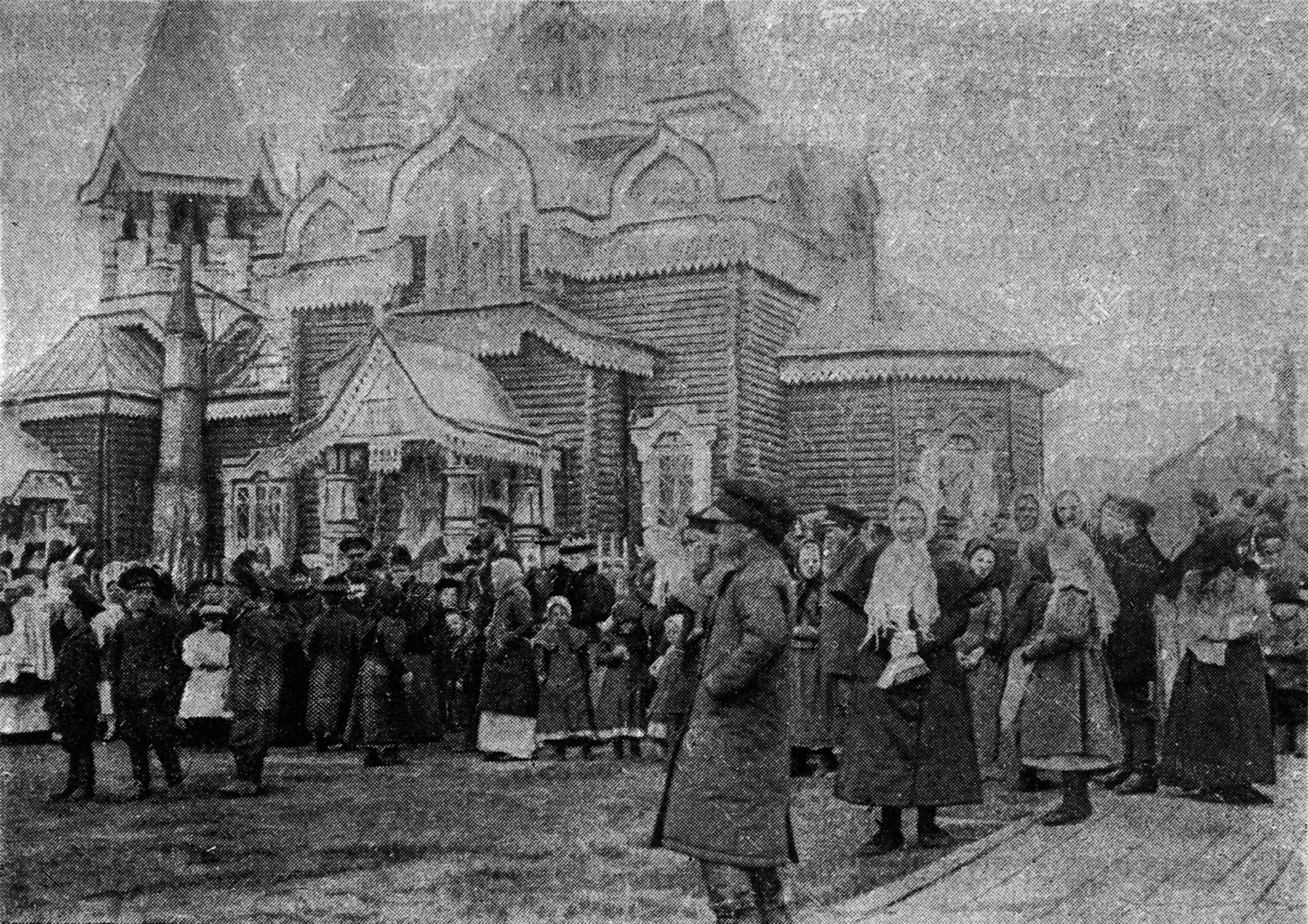 Settler's way of life. Near church at holiday (In background the wooden Church of the Protection of the Theotokos in Alexandrovsk-Sakhalinsky, built in 1891-93 after a project by I. A. Charushin, demolished after 1948).